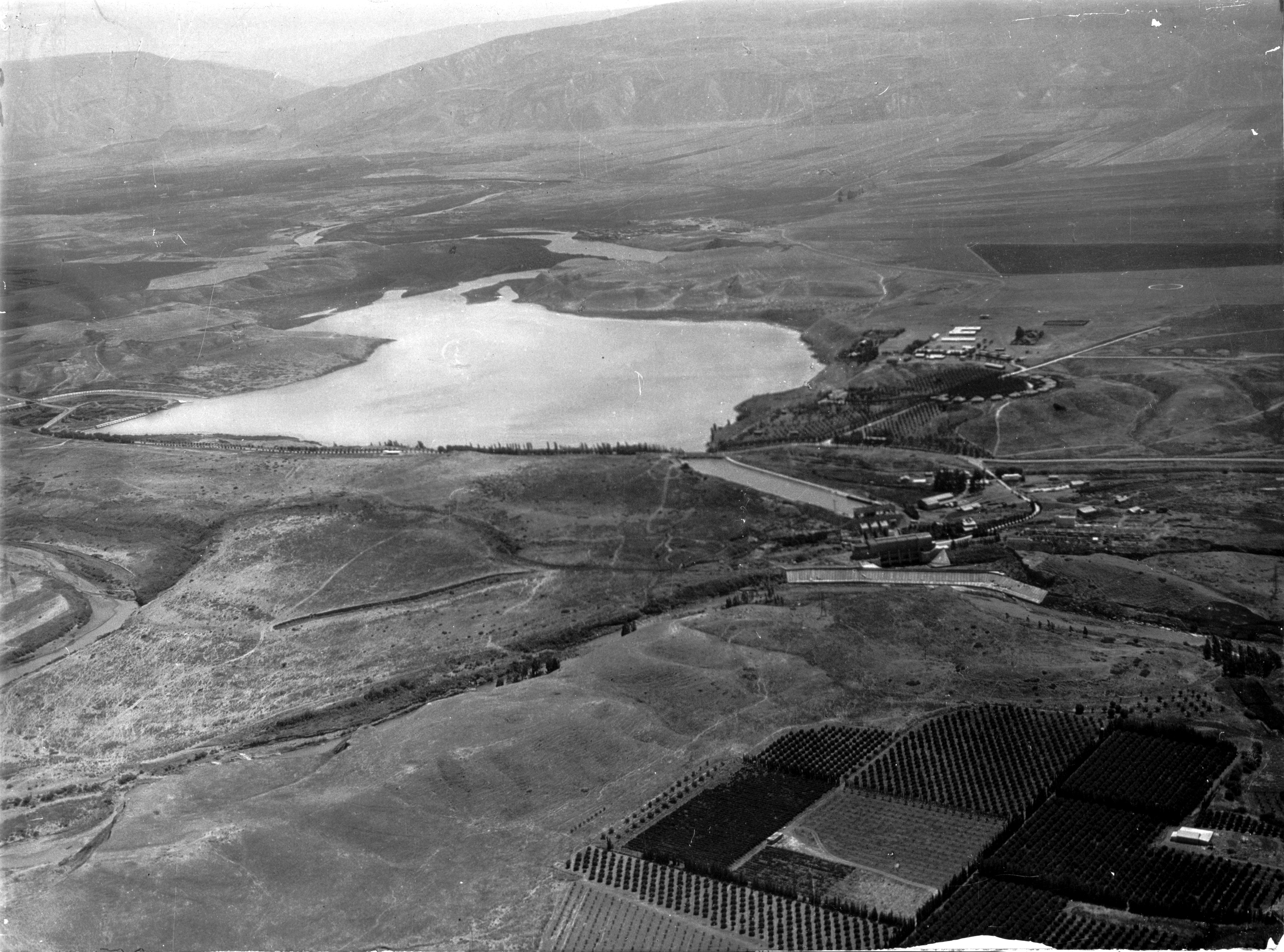 Naaraim 1898-1946 Original caption: “View of plain and lake, probably in Palestine”